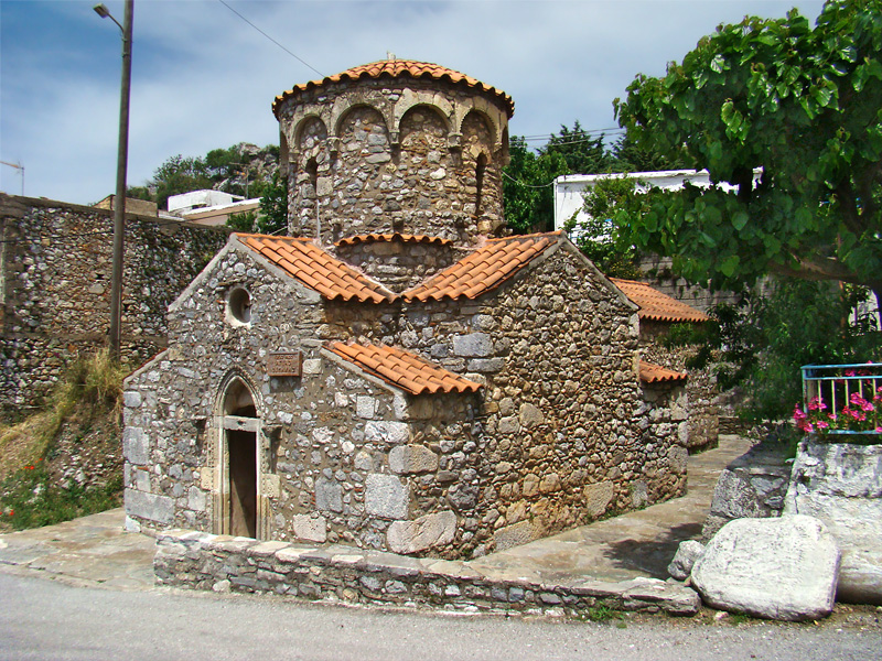 Church of Agia Eirini, Axos, Crete, Greece.